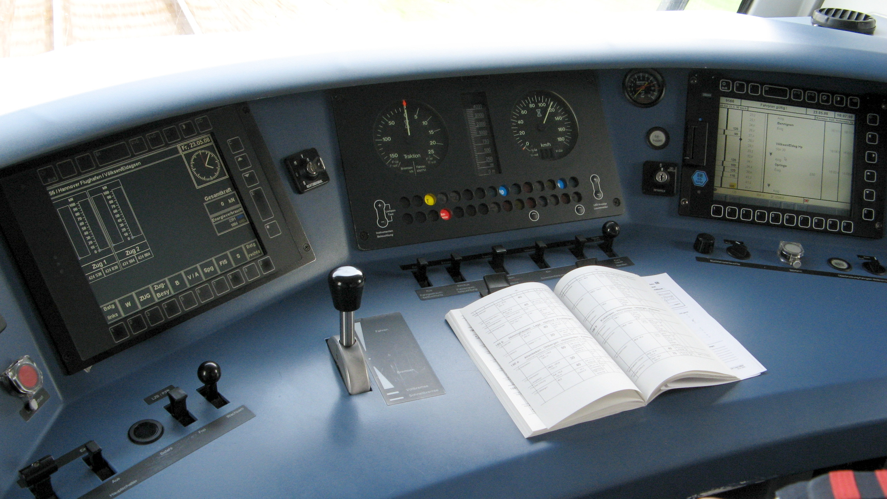 driver's cab of a german suburban train (series 424)